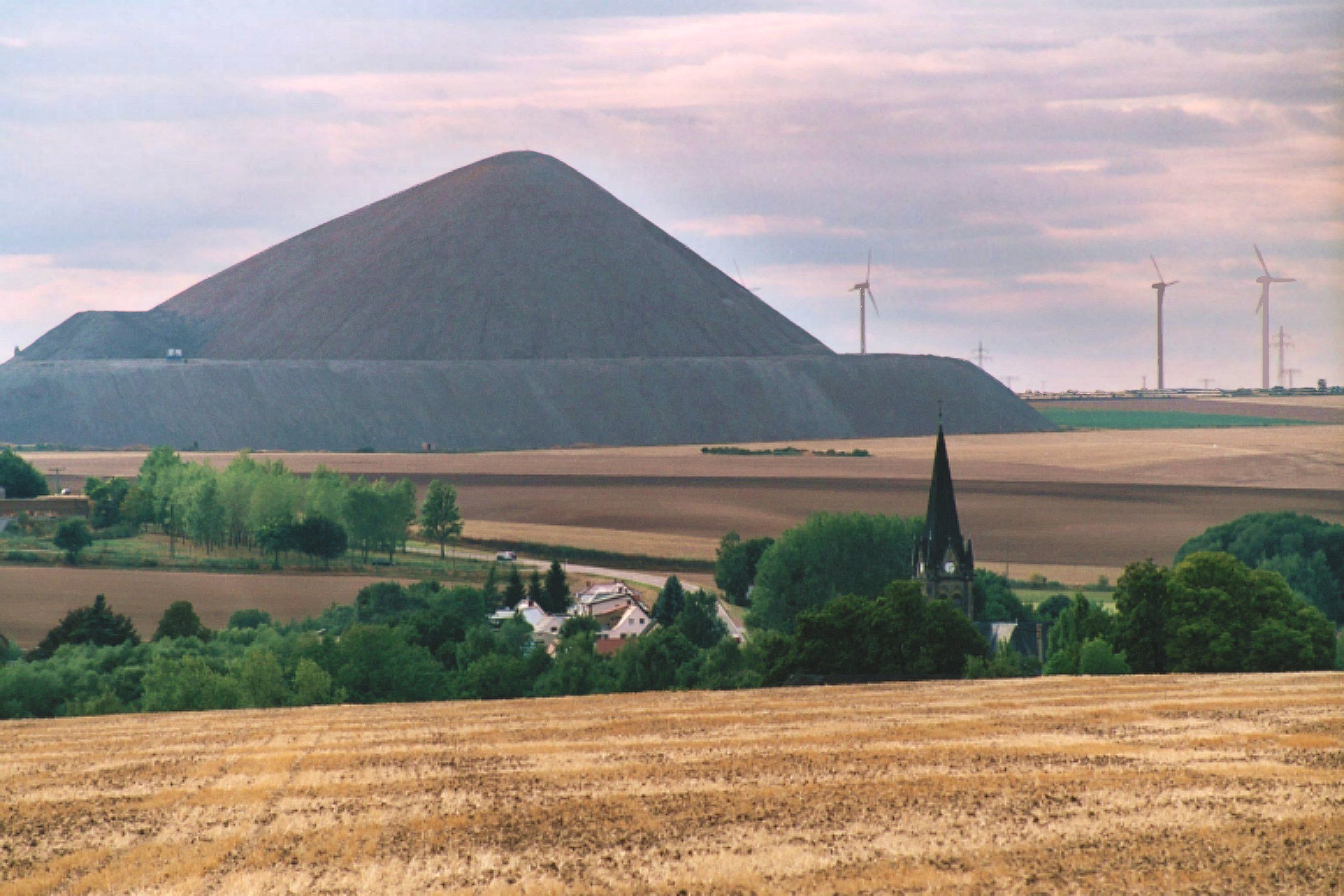 Polleben (Lutherstadt Eisleben), view to the mine dump near Hübitz and to the church St. Stephanus